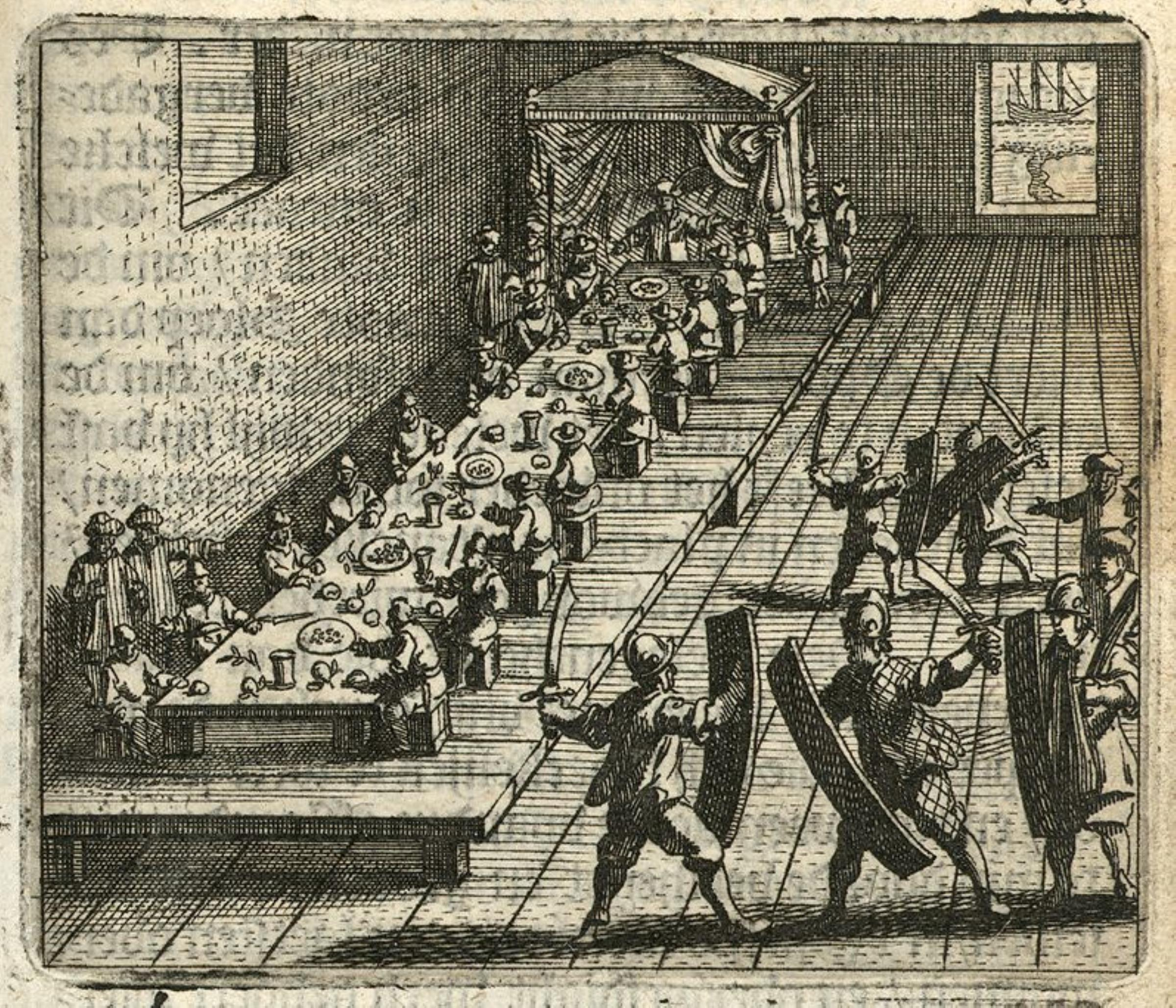 Dutch being entertained by the king of Ternate. The king of Ternate gave a party for Jacob van Neck's fleet. A ship can be viewed through the open window. The picture is a mirror image of the illustration in Isaac Commelin's Begin ende Voortgangh / van de Vereenighde Nederlandsche Geoctroyeerde Oost-Indische Compagnie